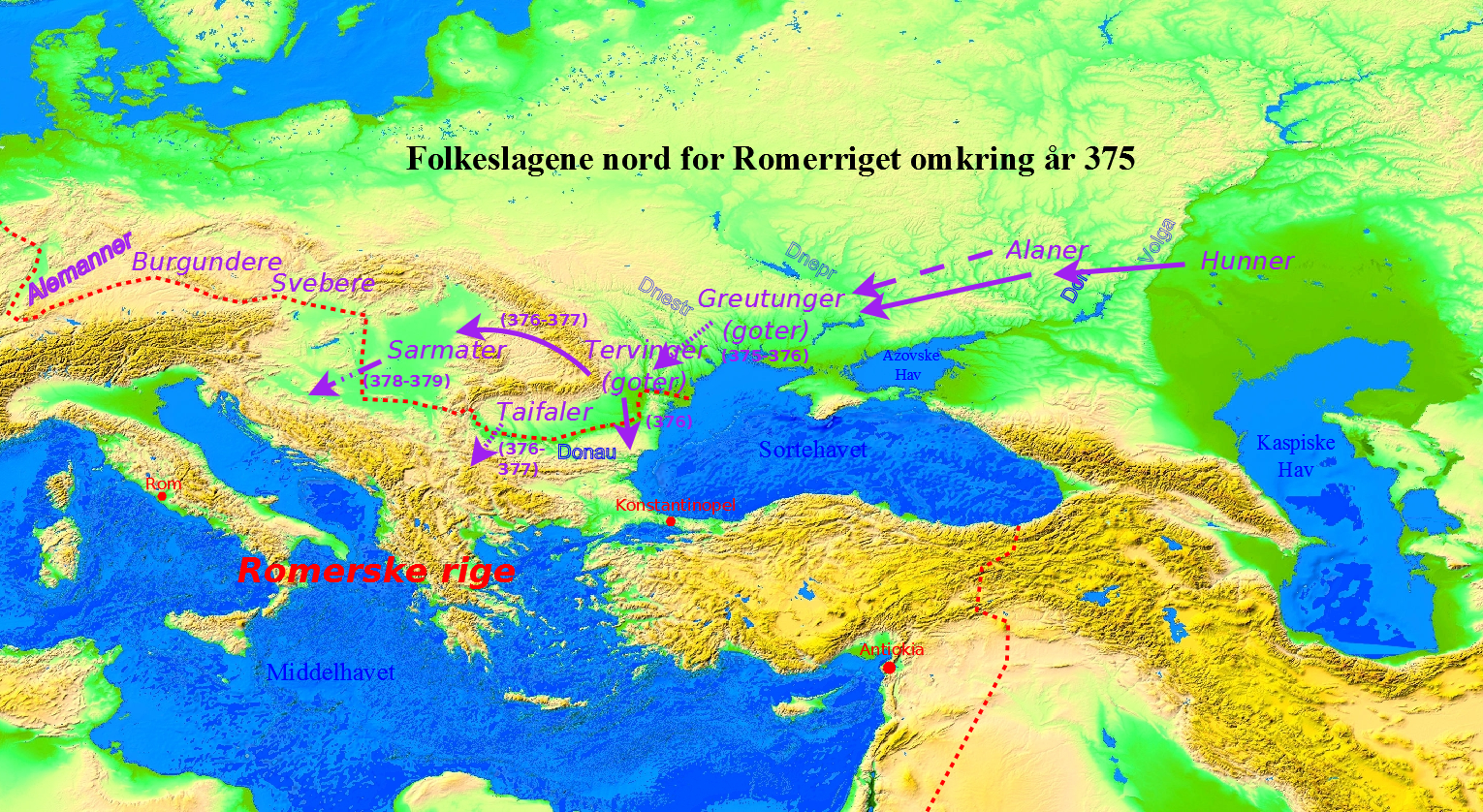 Central and Eastern Europe, ca. AD 375. Showing the movements of the Huns and other tribes North of the Roman border.